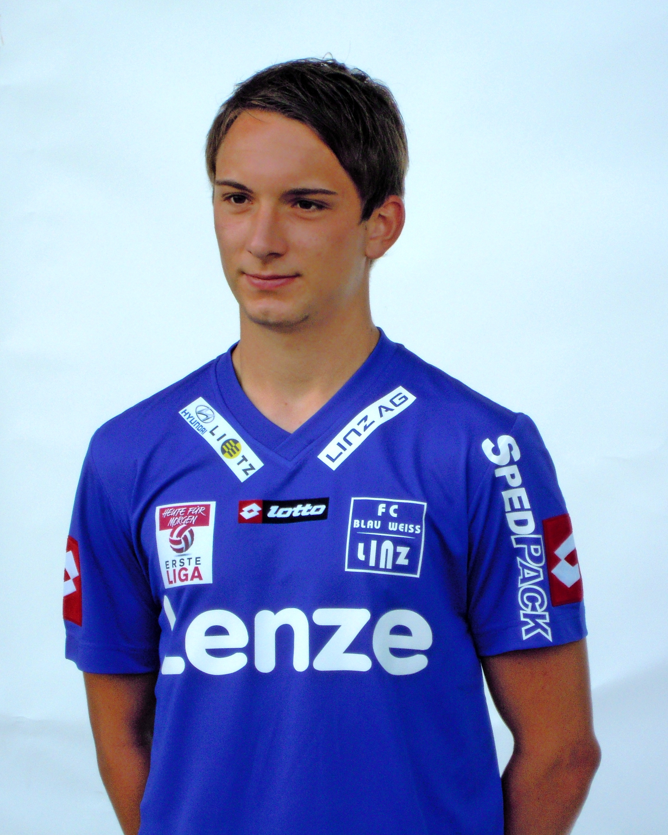 Thomas Höltschl, player of FC Blau-Weiss Linz, during a photo shoot on 30 June 2012 at the stadium of Linz